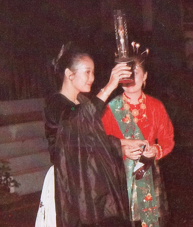 Yenny Rachman with her Citra Award at the 1982 Indonesian Film Festival in Jakarta, received for her performance in Gadis Marathon